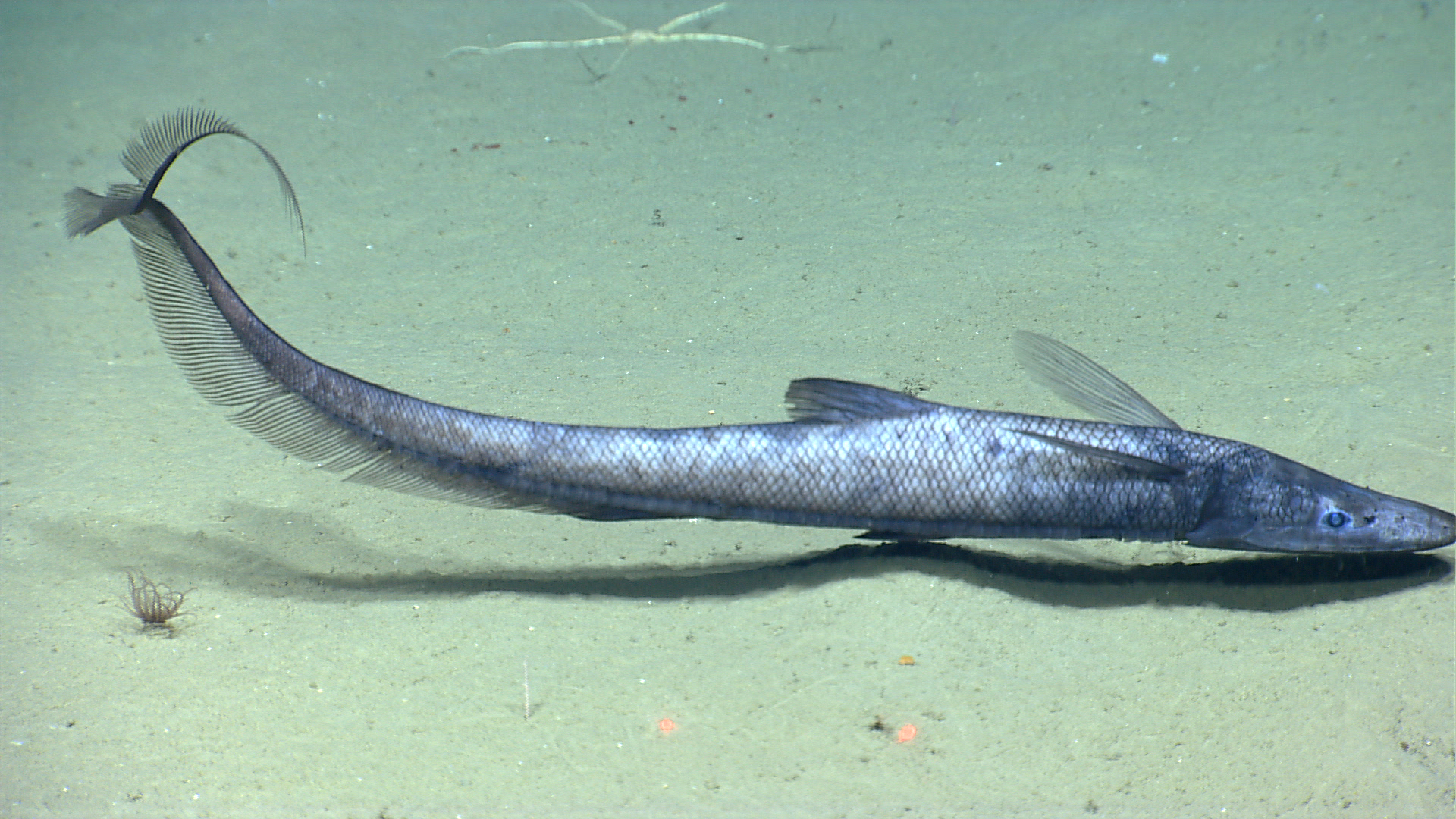 Deep sea fish. A halosaur cruising over a sandy bottom with a white brittle star and a small anemone. Image ID: expl9672, Voyage To Inner Space - Exploring the Seas With NOAA Collect Location: Veatch Canyon, center to west side 2108-1969m Photo Date: 20130720T142411Z Credit: NOAA OKEANOS Explorer Program , 2013 Northeast U. S. Canyons Expedition